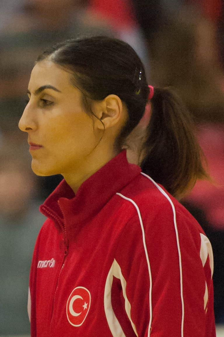 2015 World Women's Handball Championship Qualification 2014-12-06: Nurceren Akgün